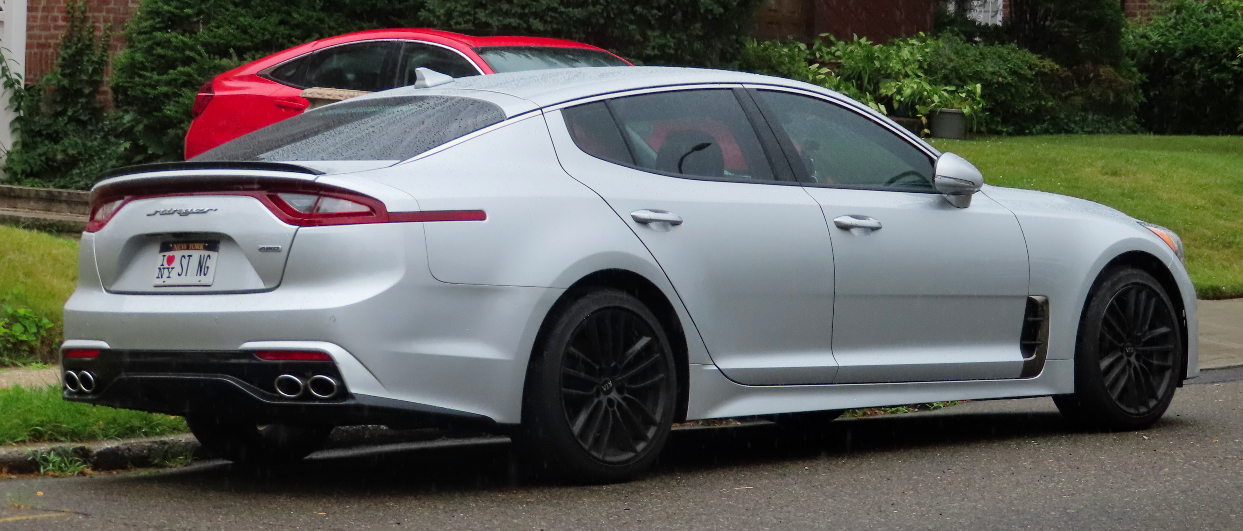 A 2018 Kia Stinger AWD photographed in Queens, New York, USA